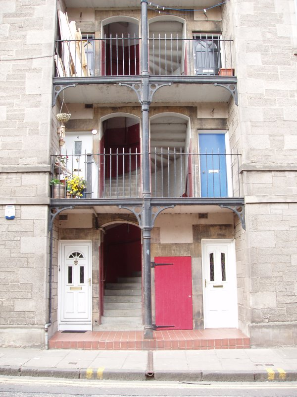 Tenements on Abbeyhill, Edinburgh